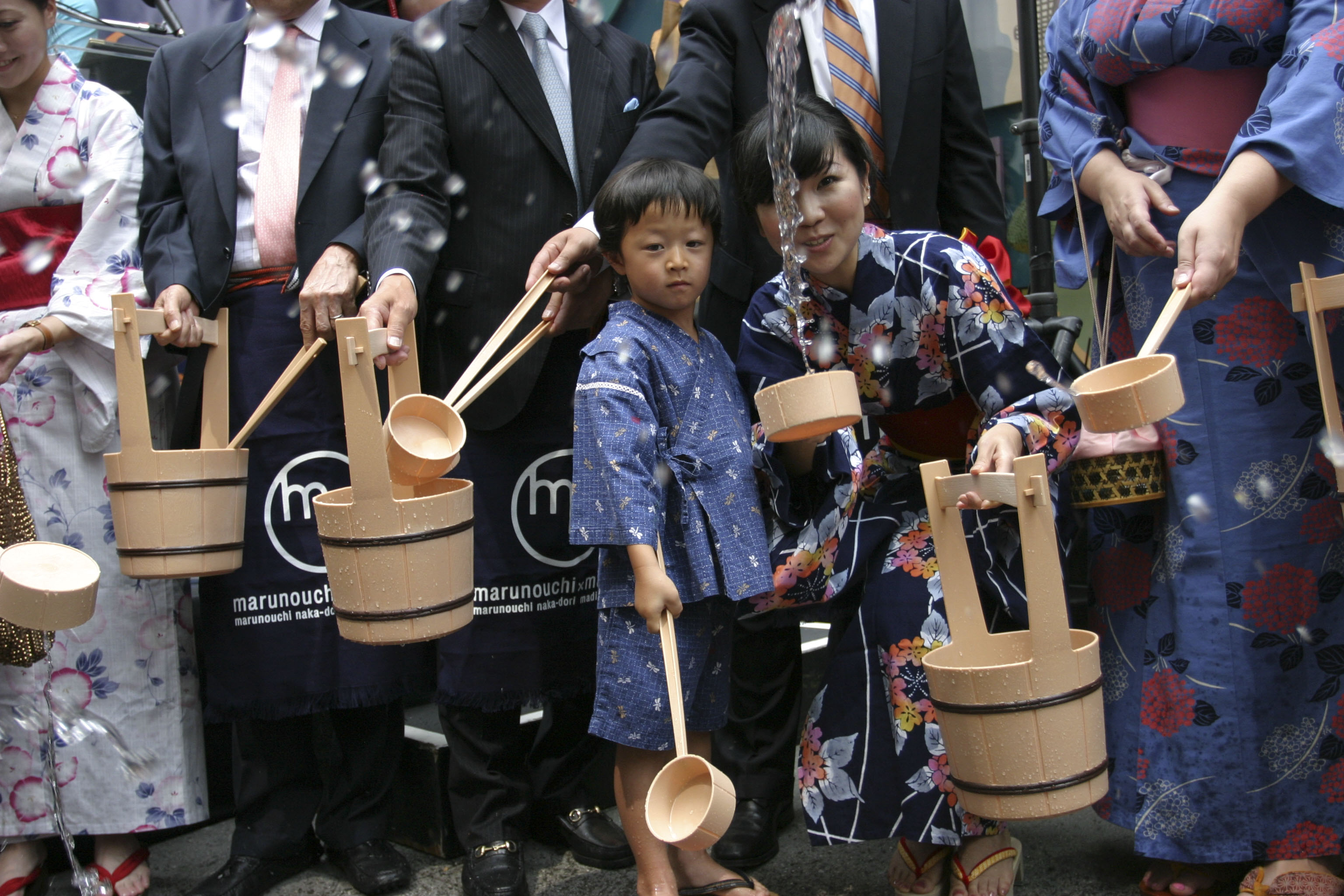 © Rubenstein, photographer Martyna Borkowski Five-year old Seiyu Whang participates in New York City's first ever Uchimizu ceremony, a traditional Japanese water sprinkling on sidewalks to cool down the area and welcome guests, on Madison Avenue.